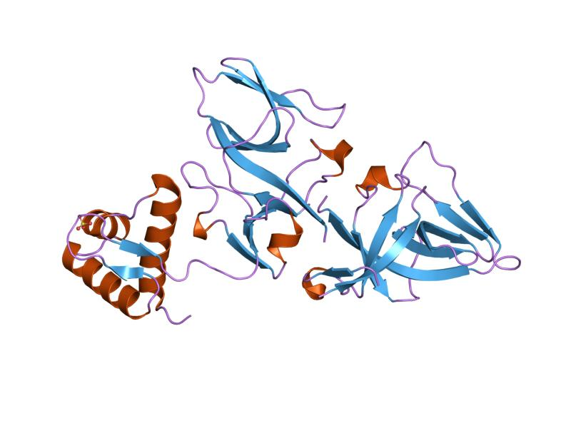 Cartoon representation of the molecular structure of protein registered with 1jhh code.